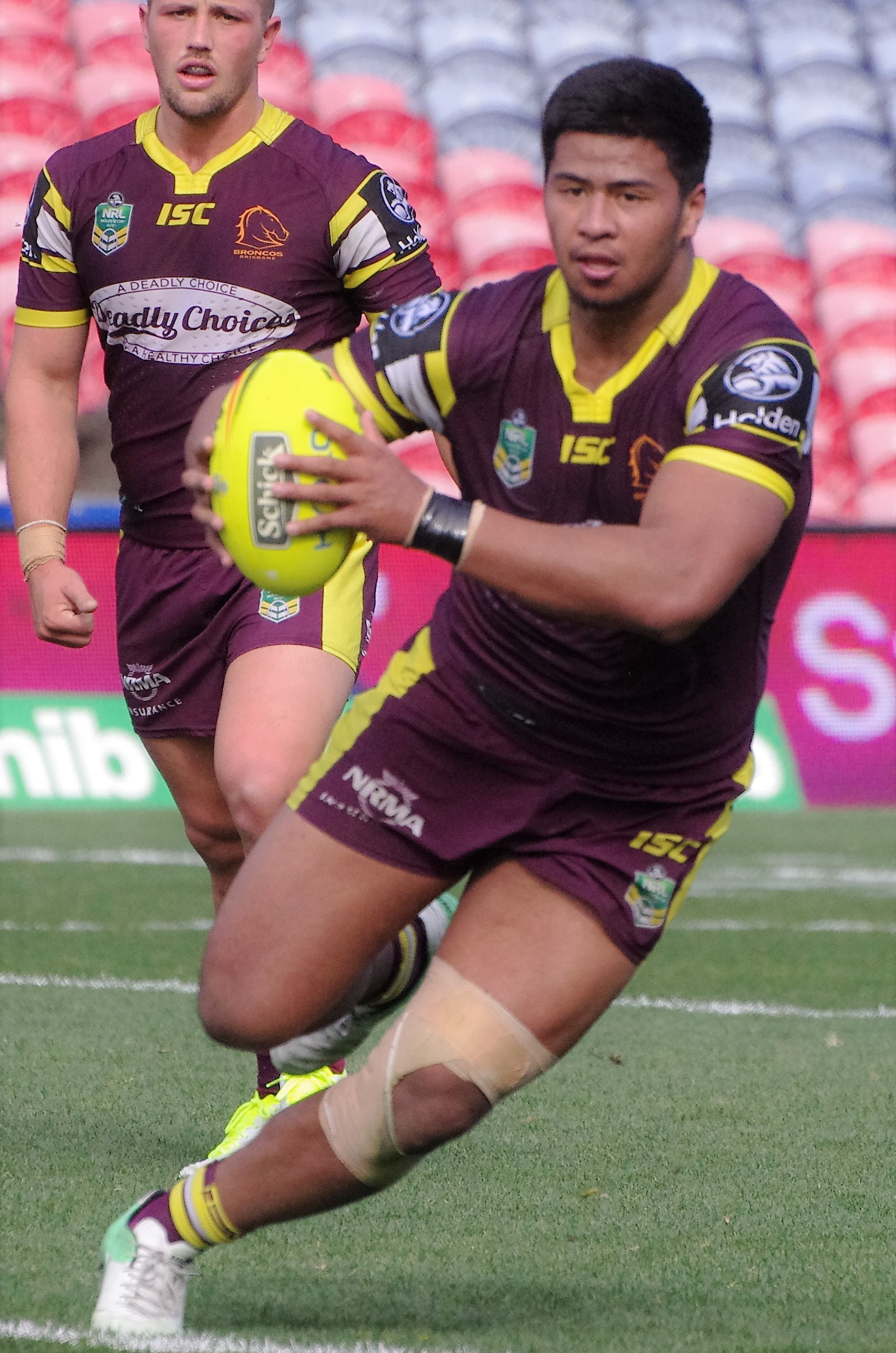 Payne Haas